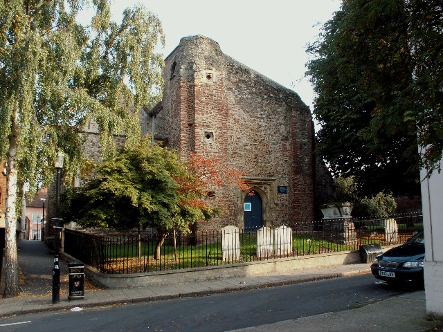 St.Martin's church, West Stockwell St., Colchester. This church dates back to the 12th century. The ruined tower was built by using many roman bricks left over from the roman city of Colchester.